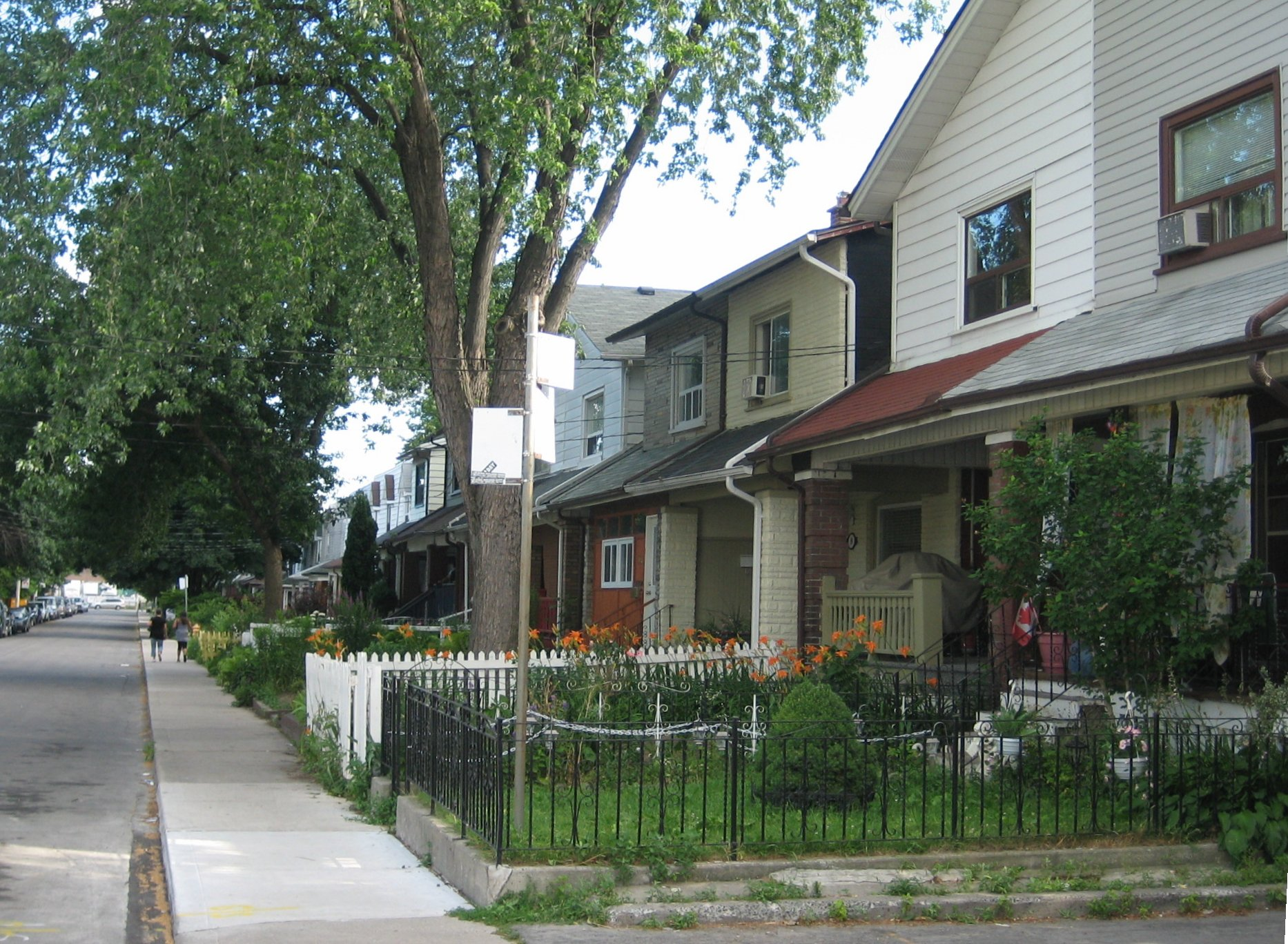 A group of homes in Leslieville.